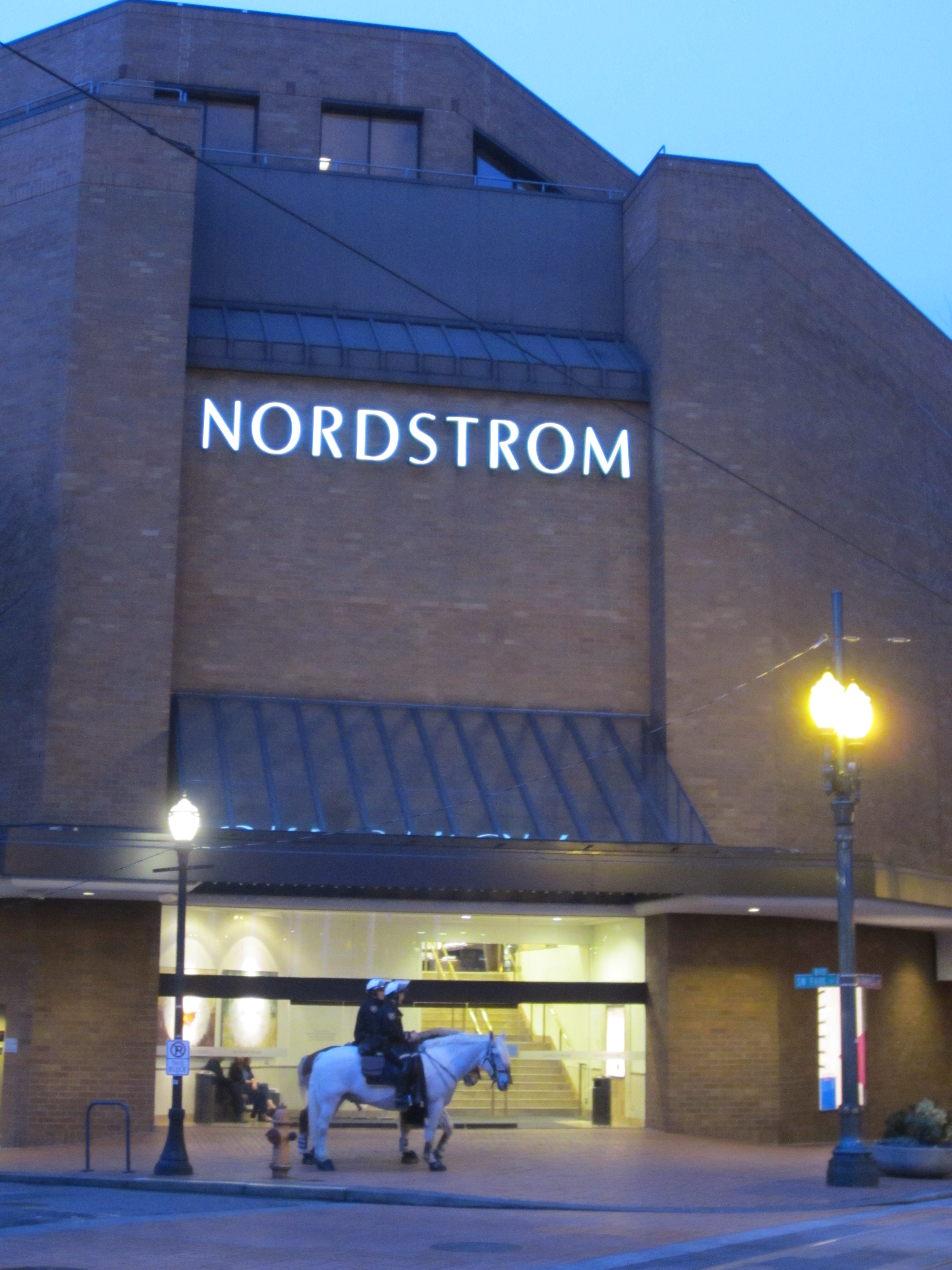 Portland Police in front of Nordstrom in downtown Portland, Oregon in January 2012